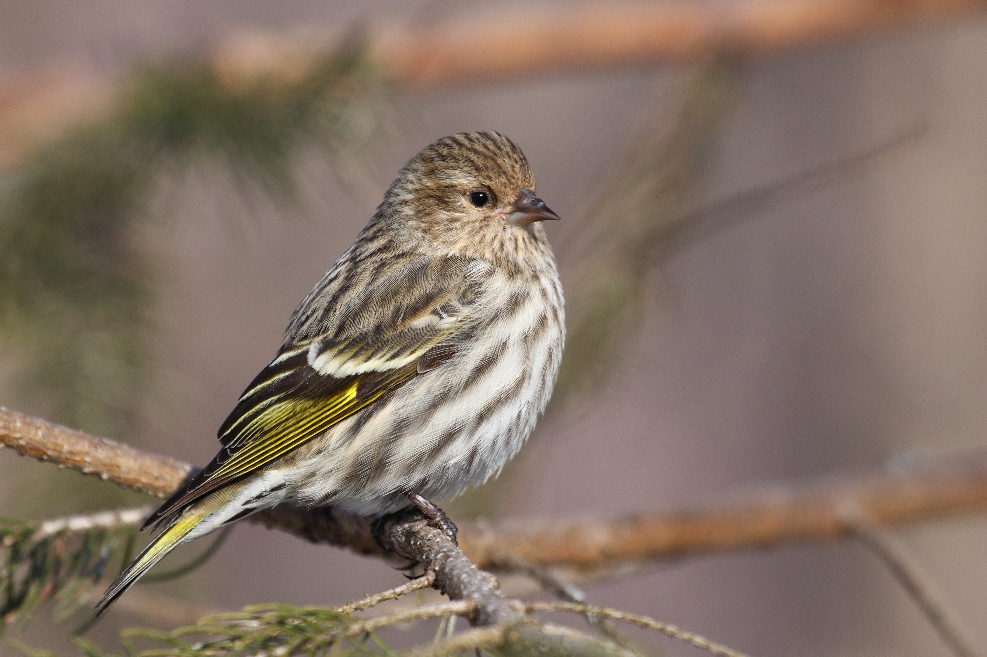 Pine Siskin (Carduelis pinus), Cap Tourmente National Wildlife Area, Quebec, Canada.